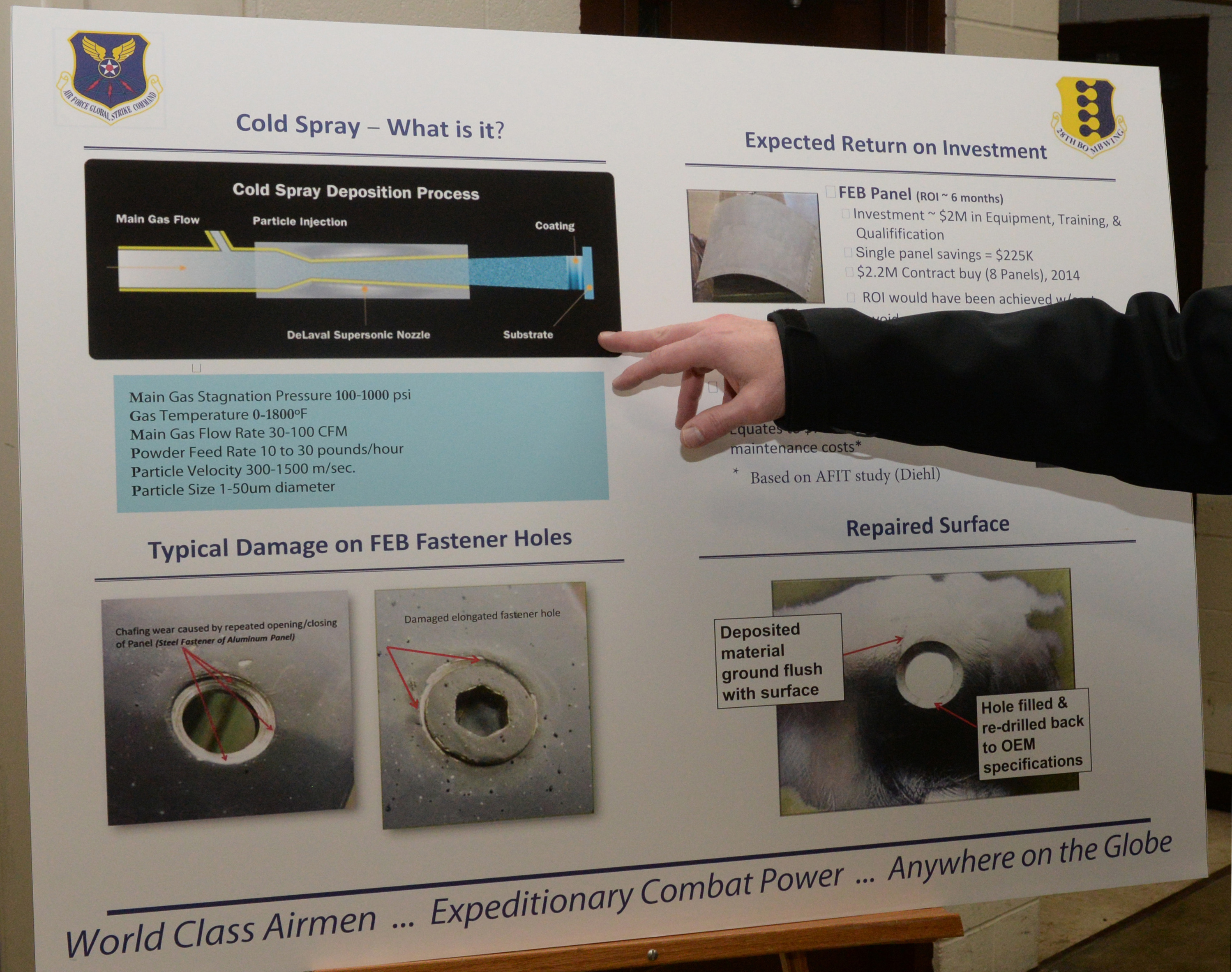 Brain James, 28th Maintenance Group senior engineering and technical adviser, explains the cold spray process at Ellsworth Air Force Base, S.D., Jan. 25, 2016. Cold spray is a technology that accelerates small particles of the substrate [whatever the material is made out of] to achieve a mechanical bond upon impact restoring the part back to the original specs. Ellsworth Air Force Base personnel have been using this technology for more than two years, and the 28th Maintenance Group is expanding the capability by building a cold spray facility, which is slated to be fully operational in May.